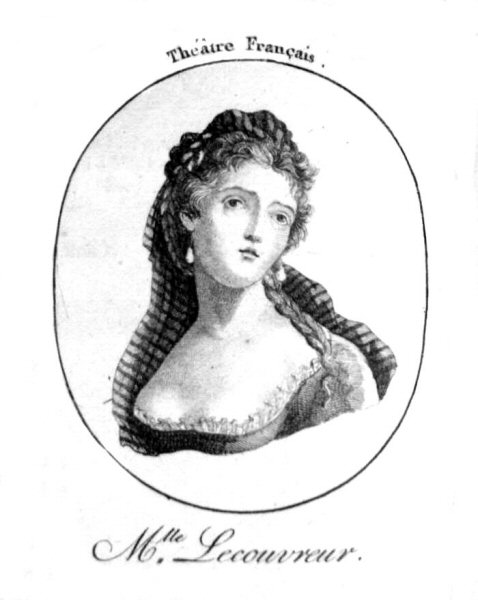 Portrait of French actress Adrienne Lecouvreur (1692 - 1730)